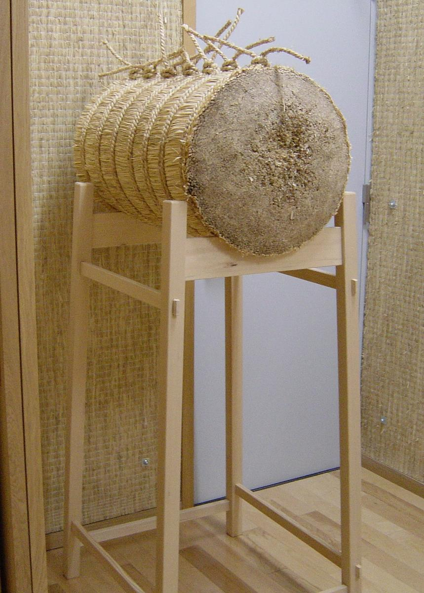 Makiwara